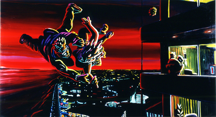 Big Fall, 1984. Oil on canvas. Whitney Museum collection, Gift of Frederick Wiesman.